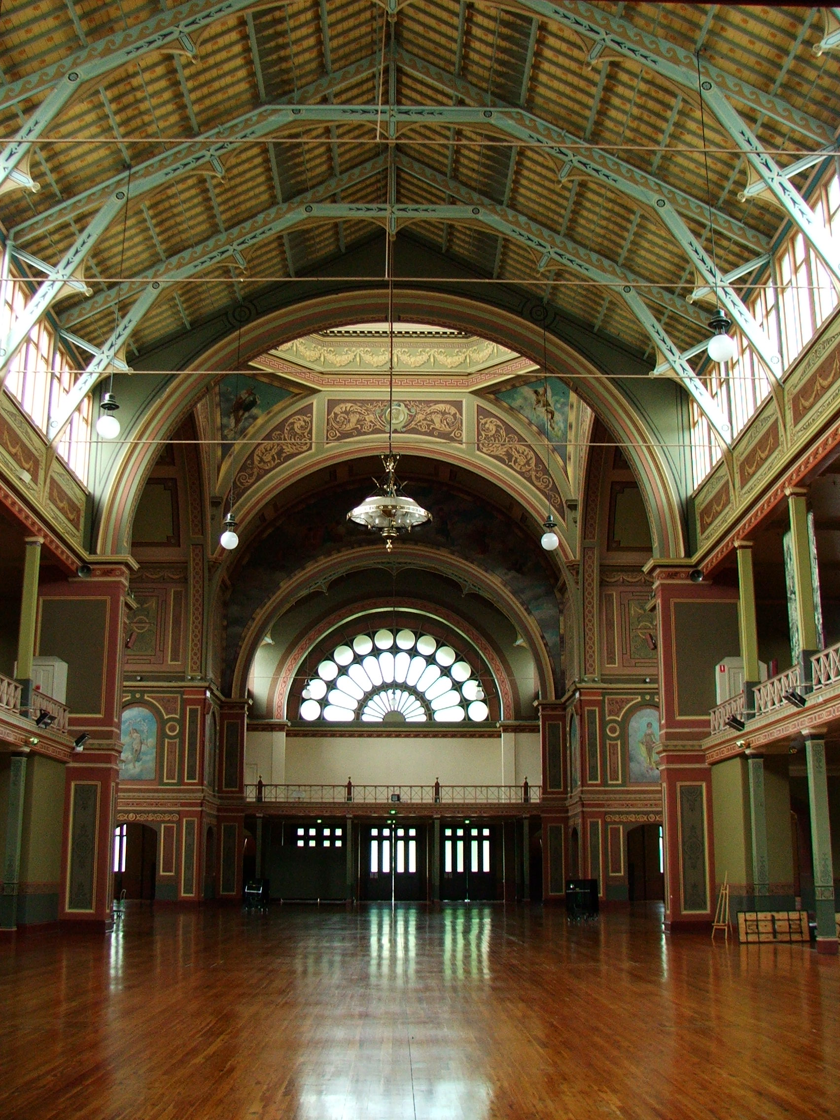 An internal view of the Royal Exhibition Building in Melbourne, Australia